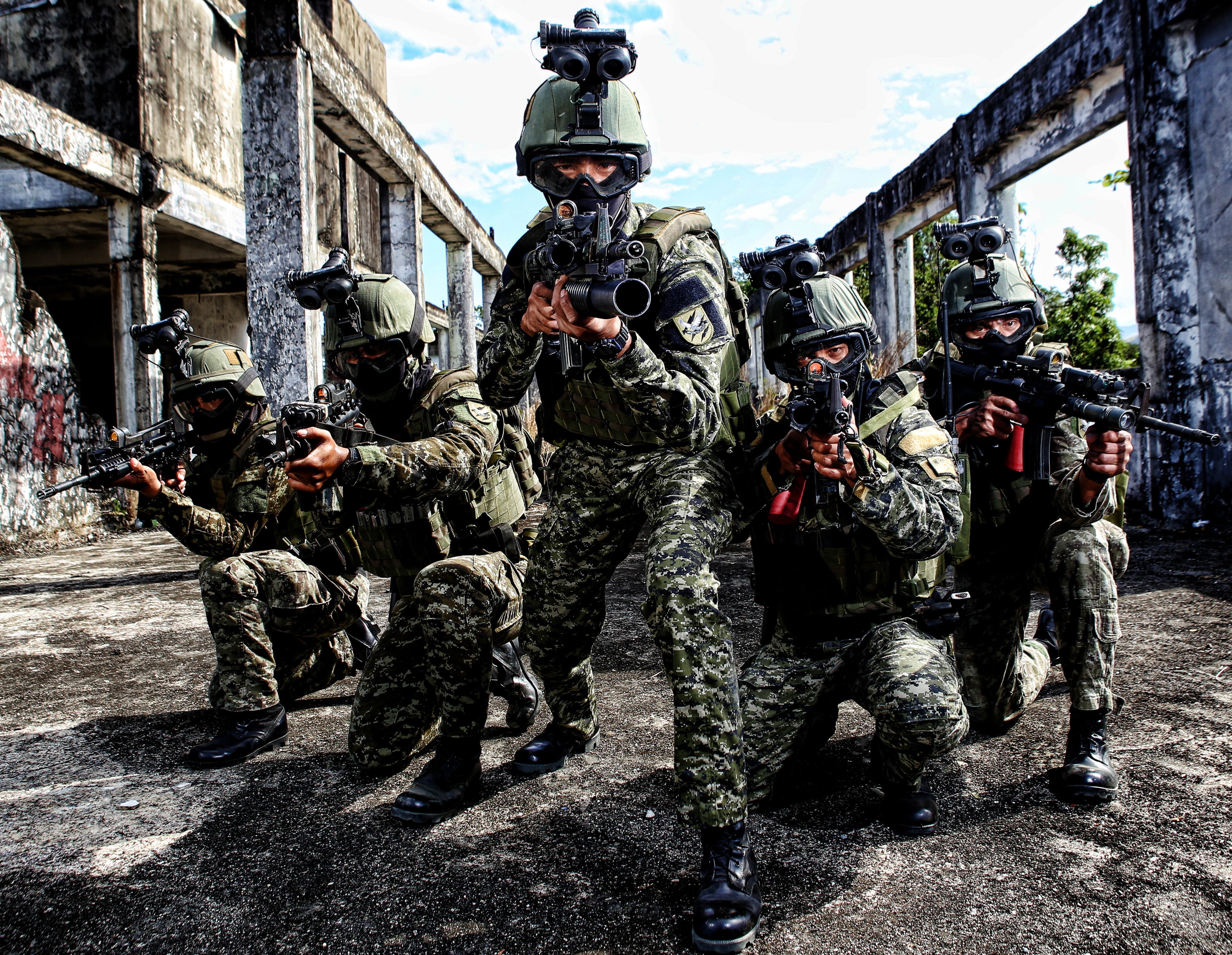 Light Reaction Regiment commandos with digital camos, ballistic helmets and night vision goggles.